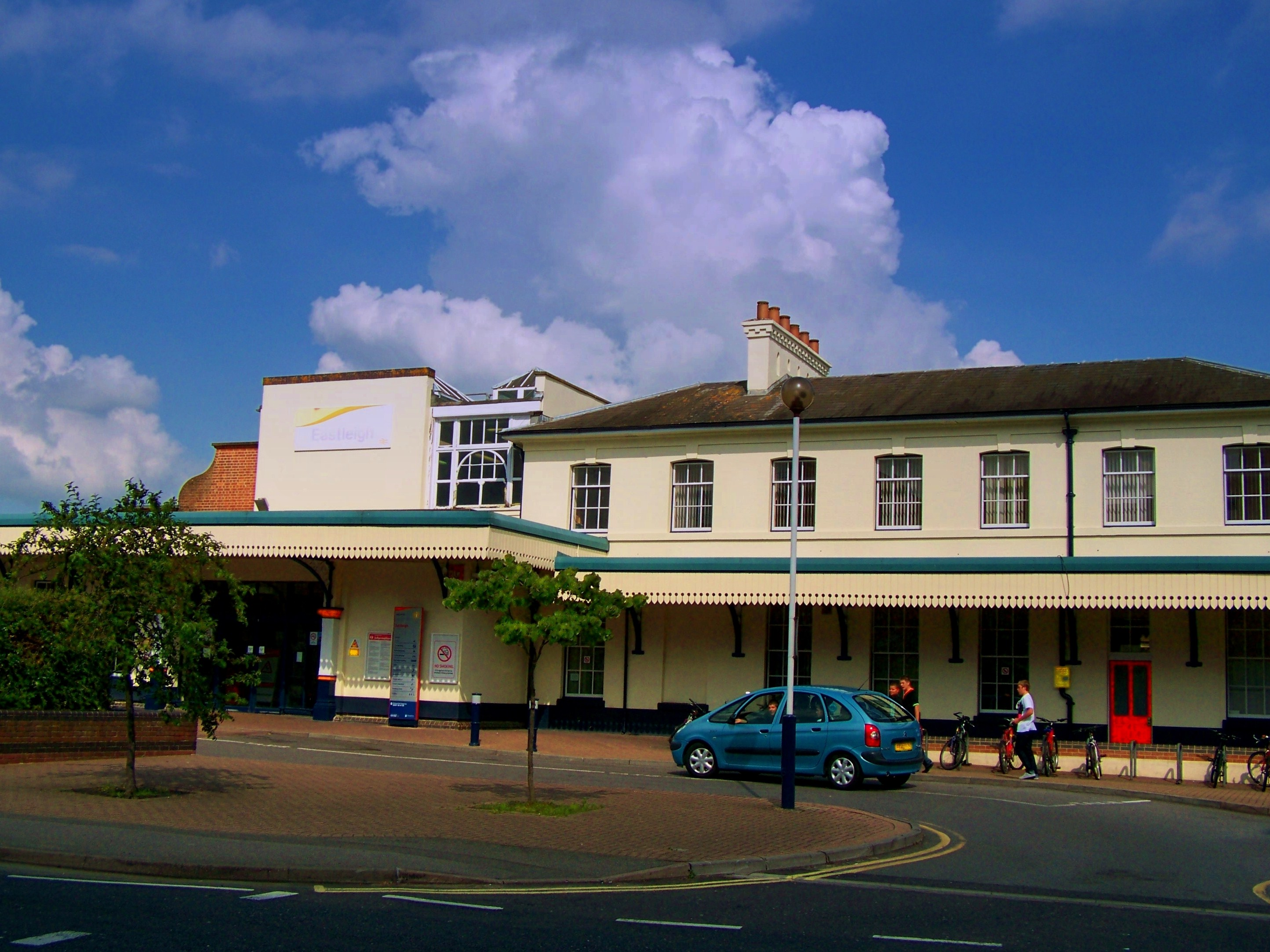 Victorian Railway Station in Eastleigh, Hampshire, UK